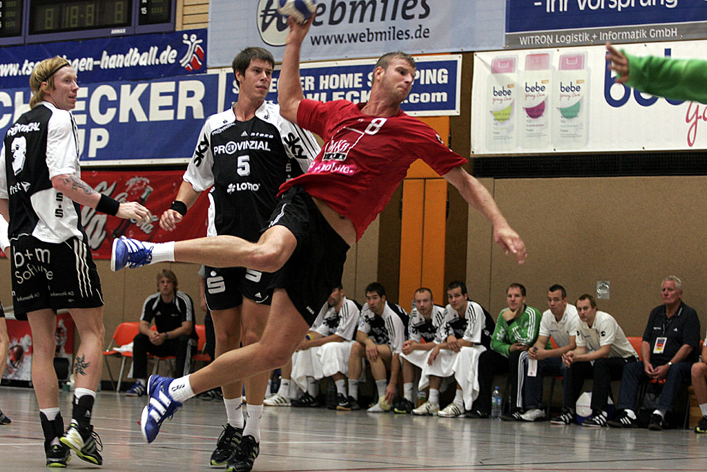 Marian Cozma, Romanian handball player from MKB Veszprém, during the Schlecker Cup 2007 in Ehingen (Germany)